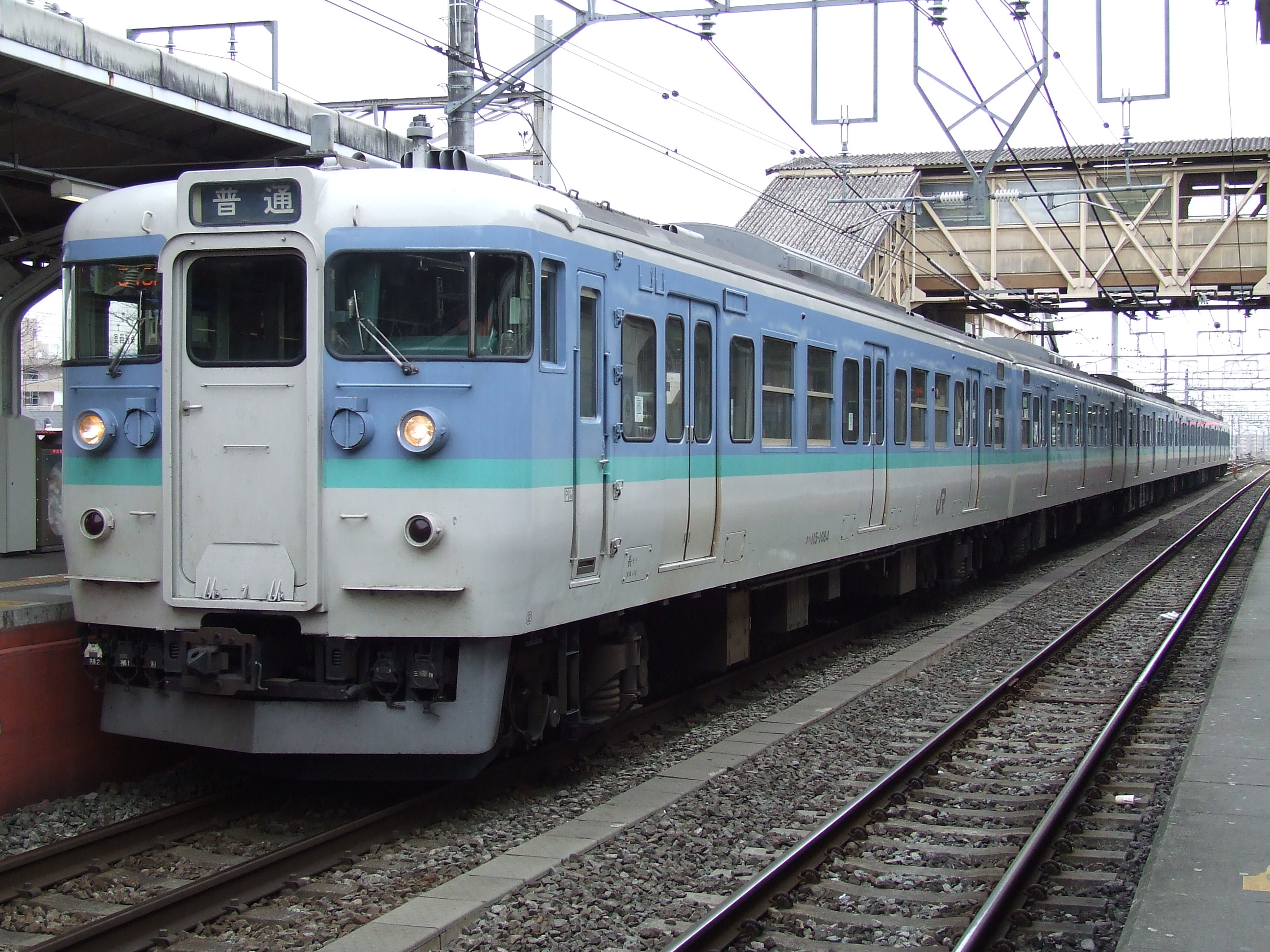 JR East 115-1000 series EMU at Takao Station on the Chuo Main Line